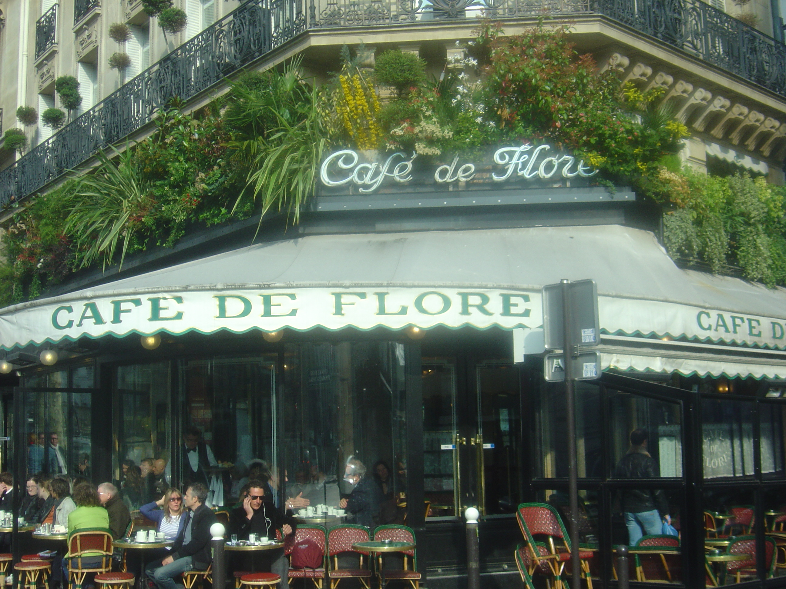 Cafe de Flore, Paris